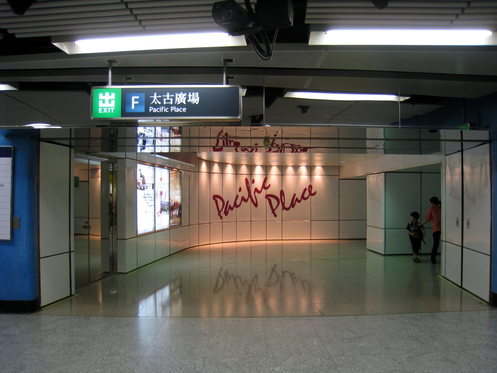 Admiralty Station MTR Subway access to Pacific Place